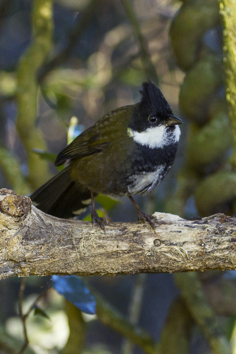 Eastern Whipbird - Lamington NP - Queensland_MG_3955